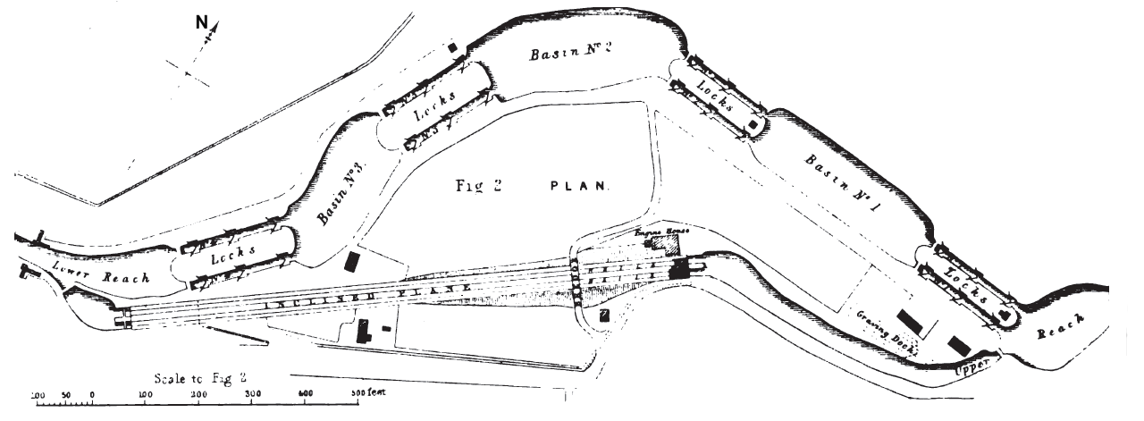 Plan of the Blackhill Incline on the Monkland Canal, Scotland